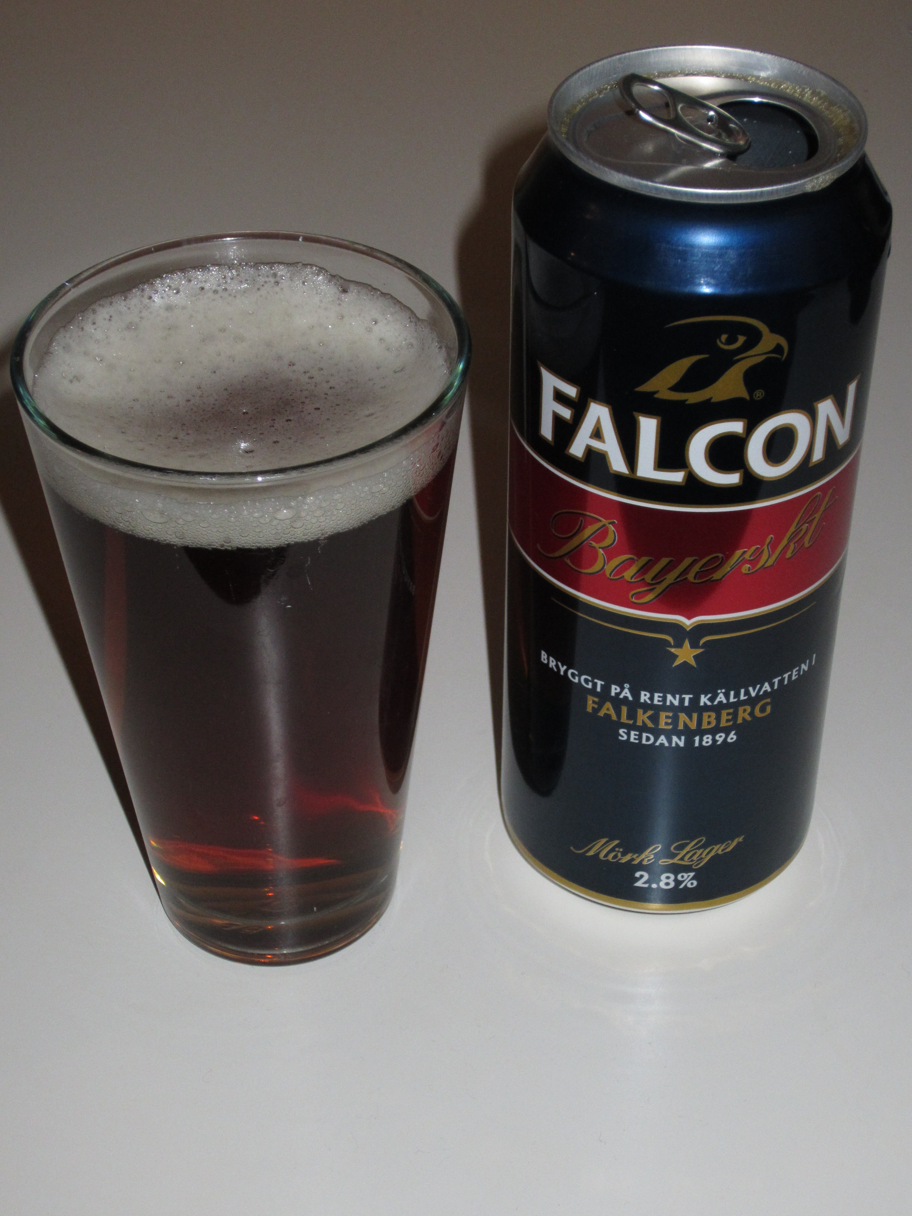 Swedish beer "Falcon Bayerskt", 2.8%